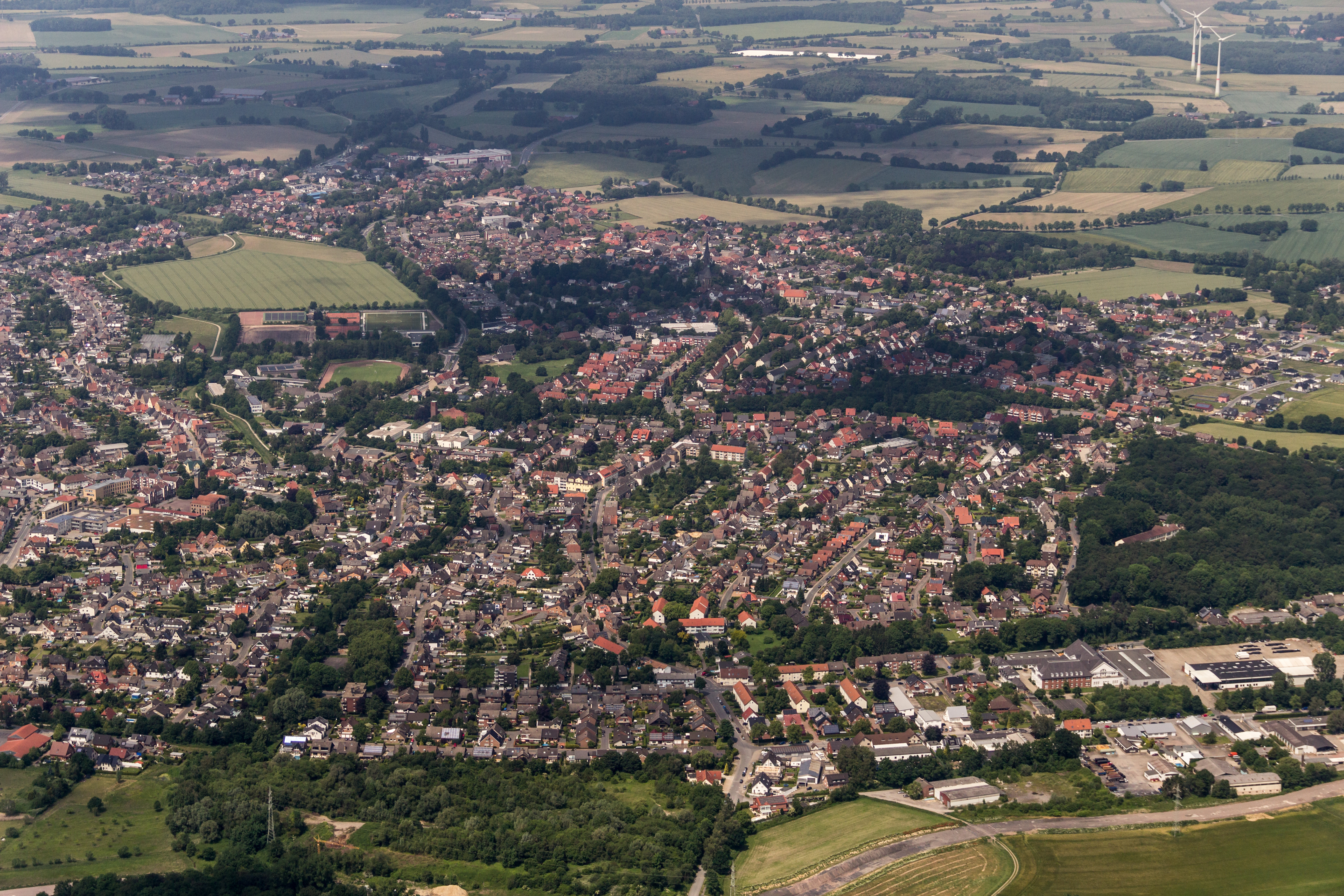 Bork, Selm, North Rhine-Westphalia, Germany